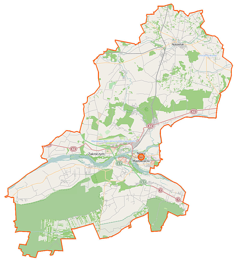 Map of Powiat nowodworski, Poland This map of Powiat nowodworski (województwo mazowieckie) was created from OpenStreetMap project data, collected by the community. This map may be incomplete, and may contain errors. Don't rely solely on it for navigation. Border coordinates52.652220.3872←↕→20.942752.2803